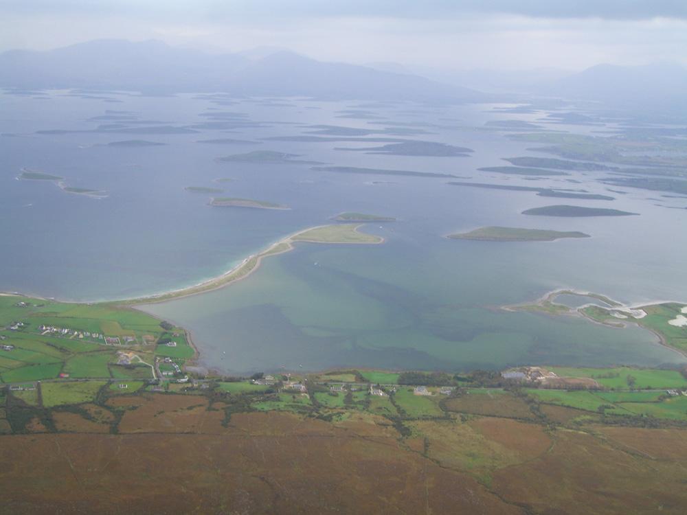 Clew Bay as seen from the top of Croagh Patrick.